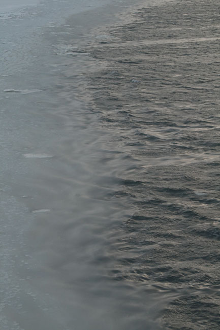 Grease ice in the Bering Sea, 2007 Bering Sea Ice Expedition